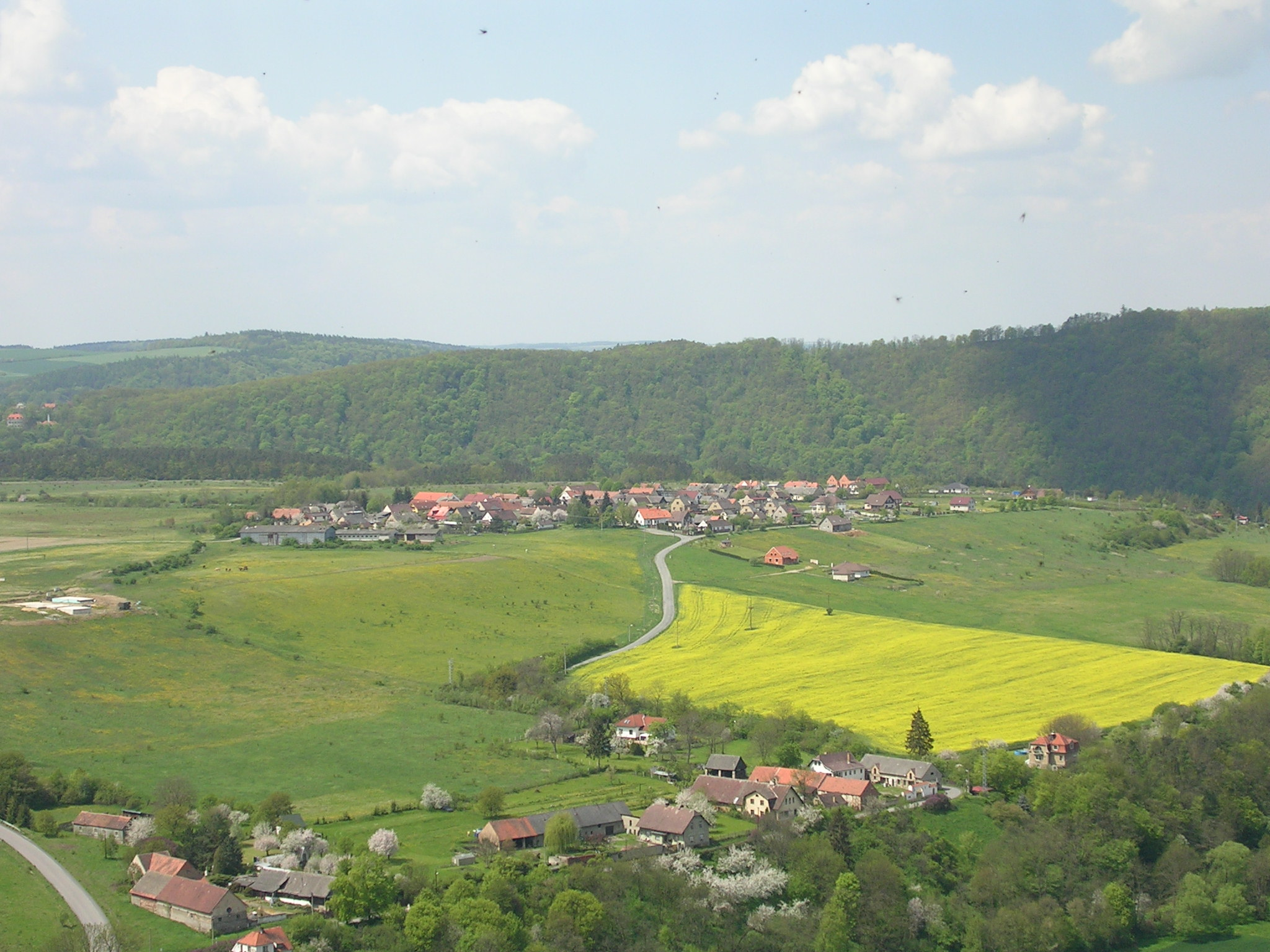 Zbečno, the Czech Republic.